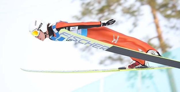 Shohhei Tochimoto during team competition of FIS Ski-Flying World Championships 2012 in Vikersund.